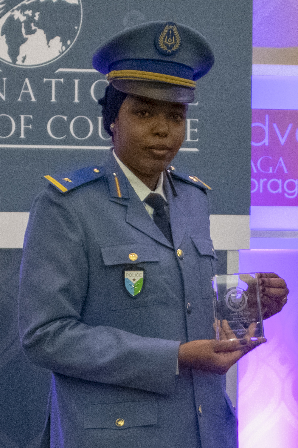 U.S. Secretary of State Michael R. Pompeo and First Lady of the United States Melania Trump present Moumina Houssein Darar from Djibouti with the 2019 International Women of Courage (IWOC) Award during the ceremony at the U.S. Department of State in Washington, D.C., on March 7, 2019. [State Department photo by Ron Pryzsucha/ Public Domain]